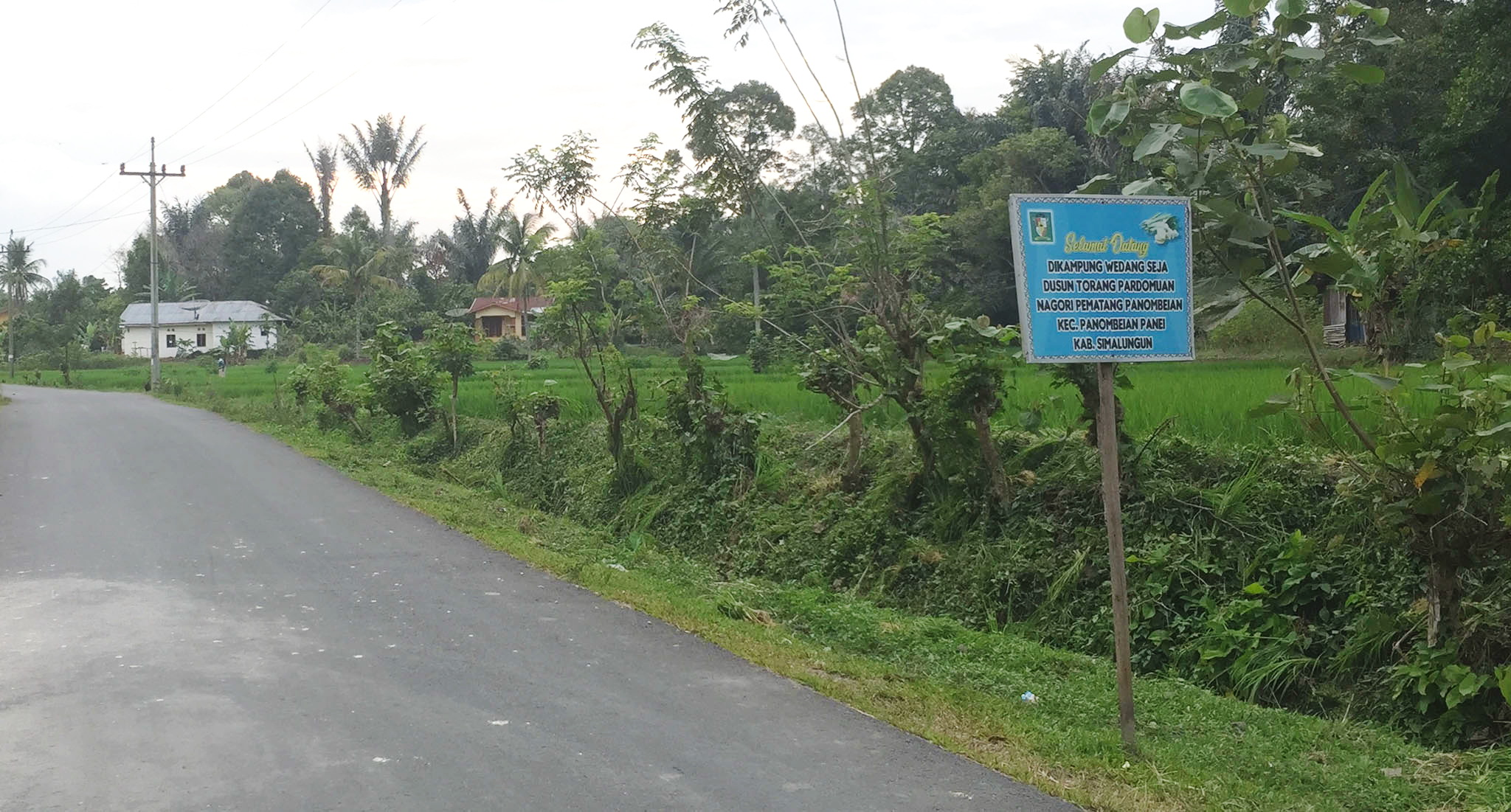 welcome gate to Pematang Panombean (Dusun Torang Pardomuan), Panombeian Panei, Simalungun